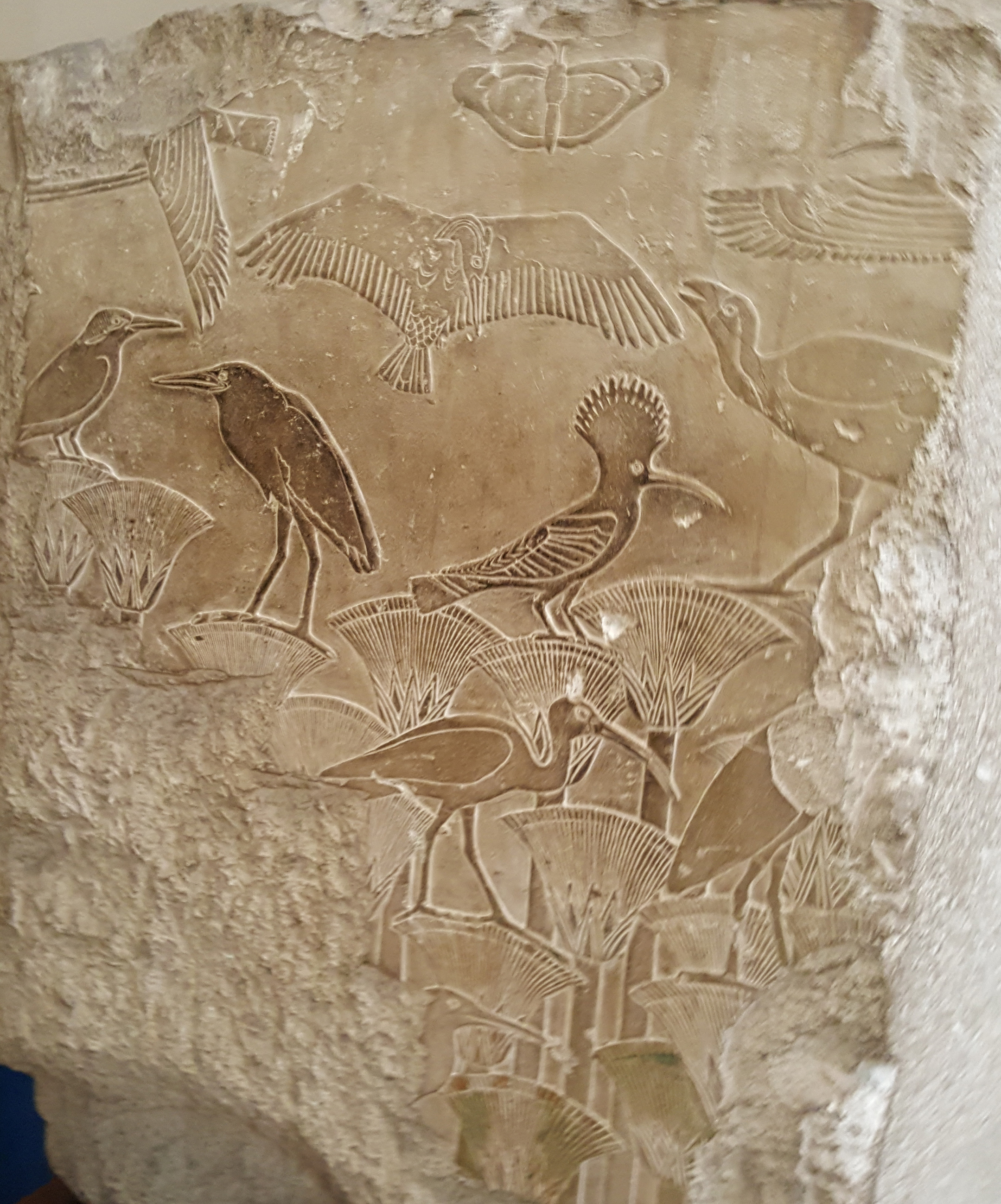 Birds in the Delta marshes. This relief was part of the decoration on the limestone walls in the funerary temple adjoining the pyramid of Userkaf in Saqqara. It was brought to light by Cecil Mallaby Firth, in 1928. Egypt, Cairo, Egyptian Museum, upper floor, gallery 54, JE 56001 (H = 102 cm, W = 77 cm) Limestone, from Saqqara; 5th Dynasty; reign of Userkaf.